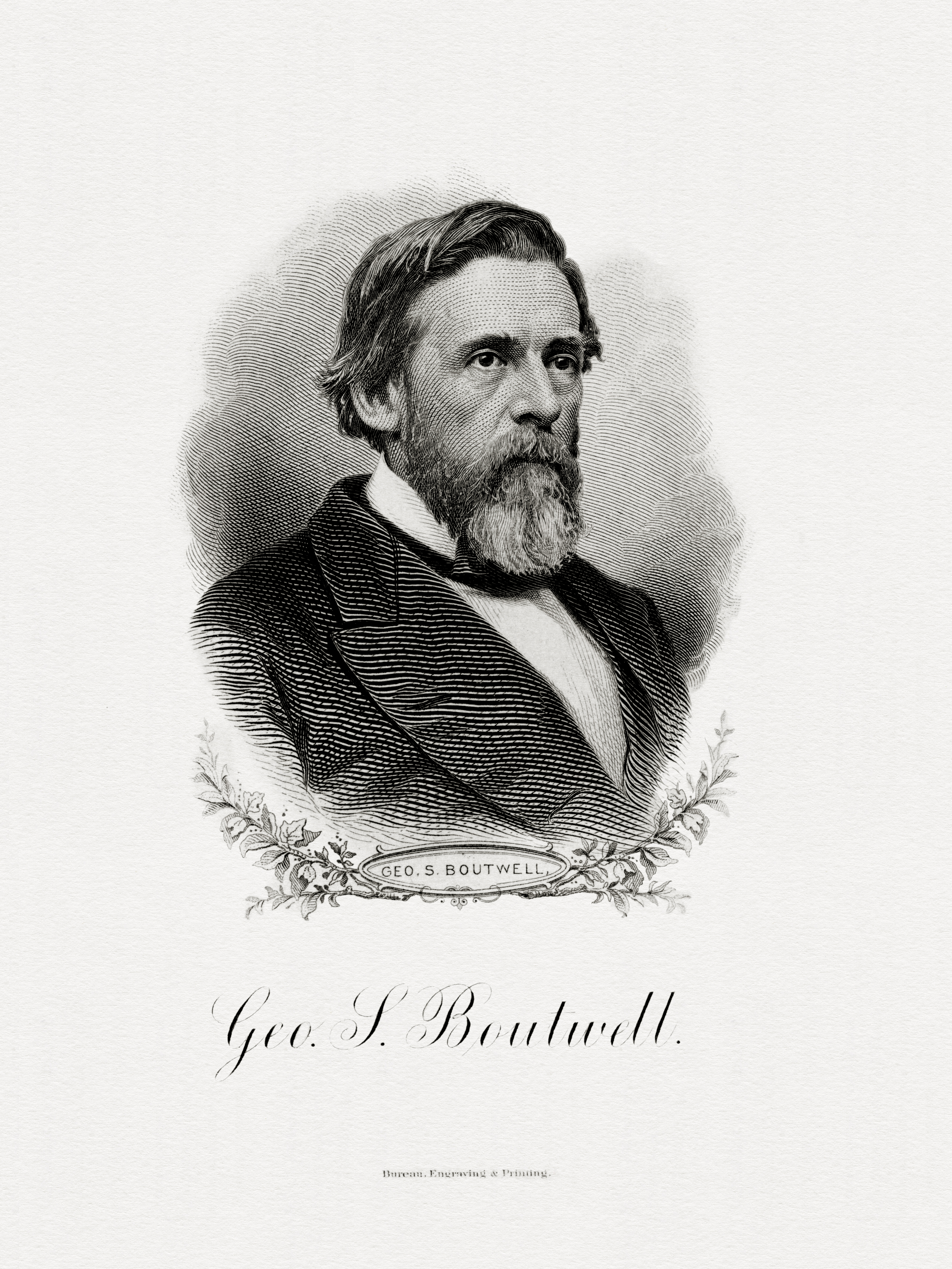 Engraved BEP portrait of U.S. Secretary of the Treasury George S. Boutwell